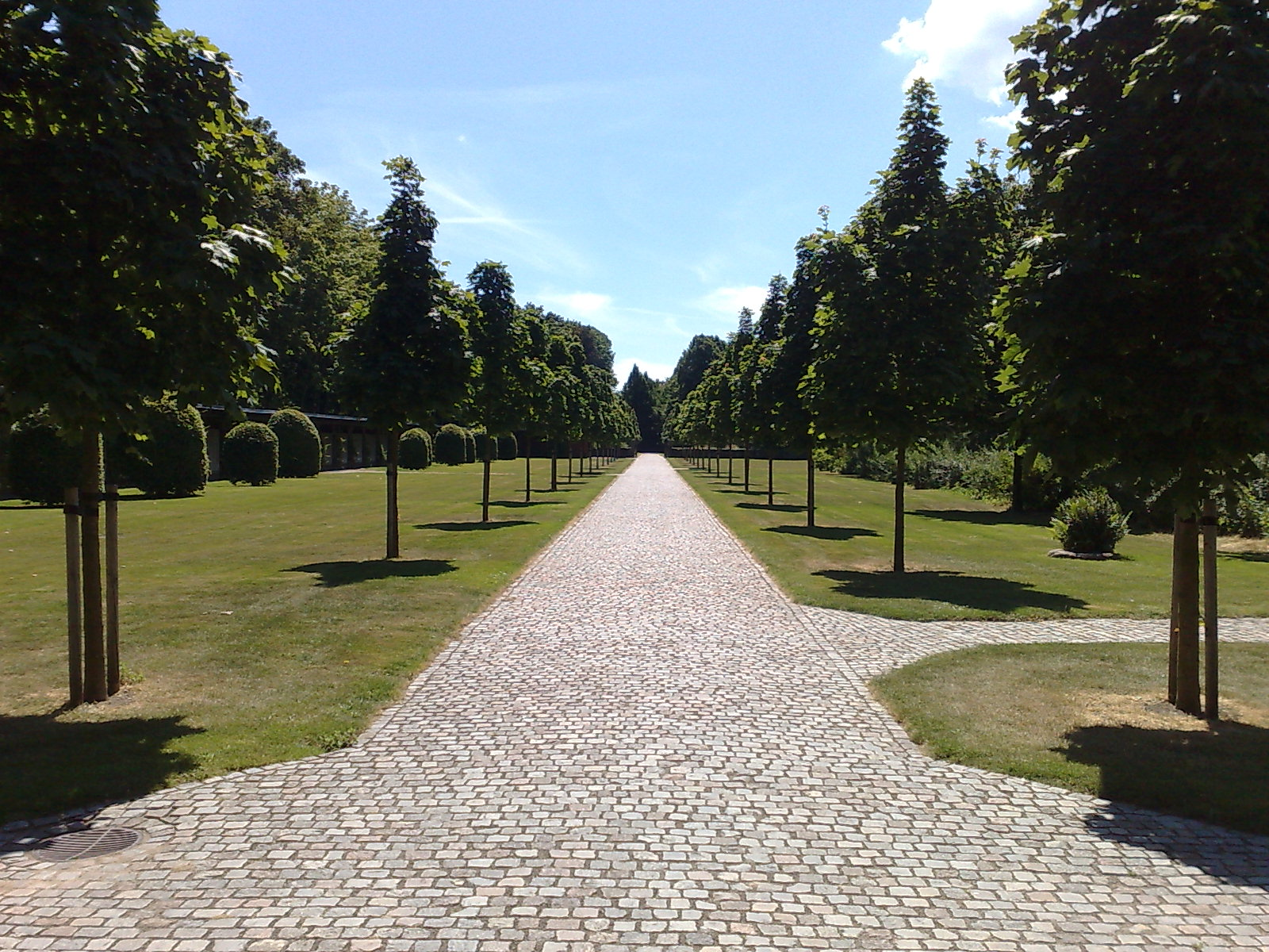 Mindelunden in Copenhagen, Denmark. The main avenue. utm_source=upload&utm_medium=graphic&utm_campaign=upload_graphic/ ShoZu].